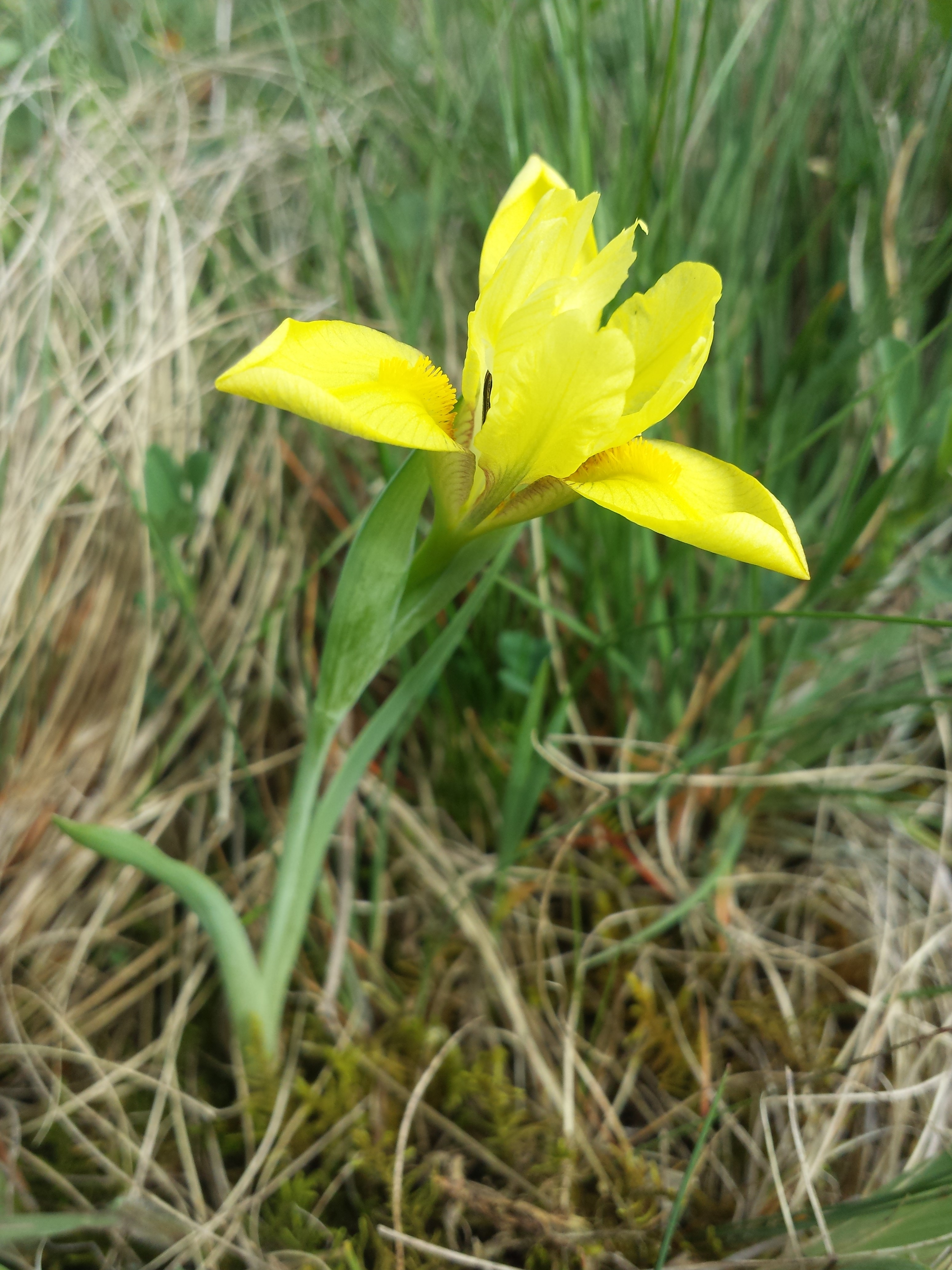 Habitus Taxonym: Iris humilis subsp. arenaria (ss Fischer et al. EfÖLS 2008 ISBN 978-3-85474-187-9) Location: dry grassland NW to Bründlkapelle, district Hollabrunn, Lower Austria - ca. 340 m a.s.l. Habitat: dry grassland This media shows the natural monument in Lower Austria with the ID HL-032b.